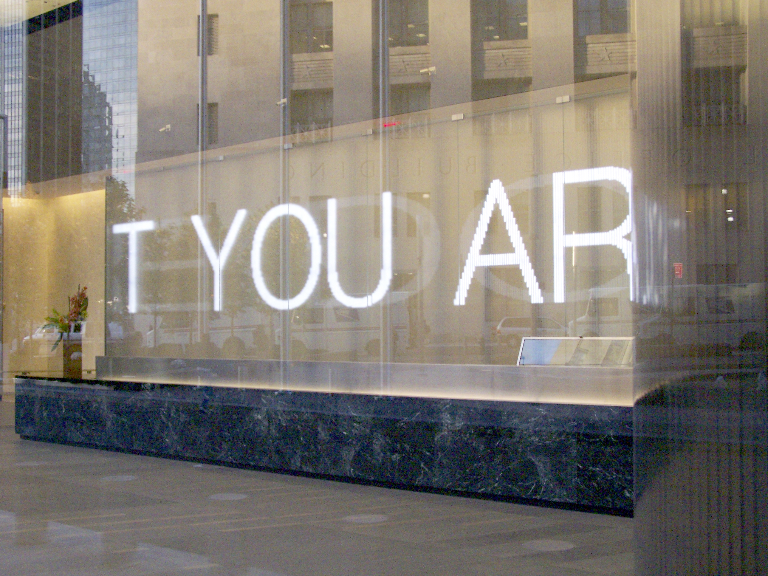 Jenny Holzer at 7 World Trade Center. Photo taken November 2006 through the window of the lobby showing part of the light intallation by artist Jenny Holzer at 7 World Trade Center in New York City.